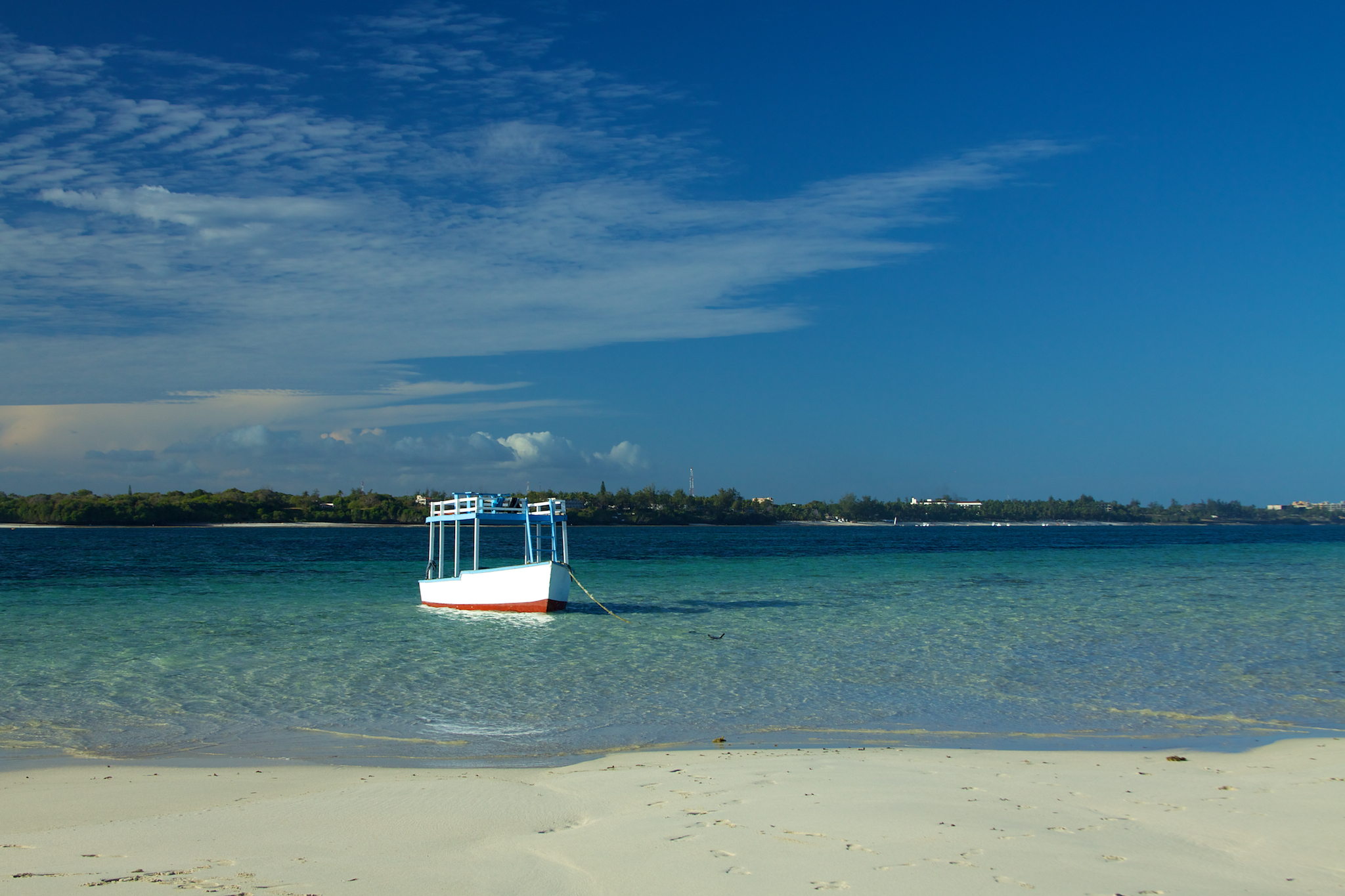 Only a short jaunt from the shore, this tiny island of sand in Mombasa's Marine Park was a great spot to stop and splash and play until the tide came in and shrunk the island away.